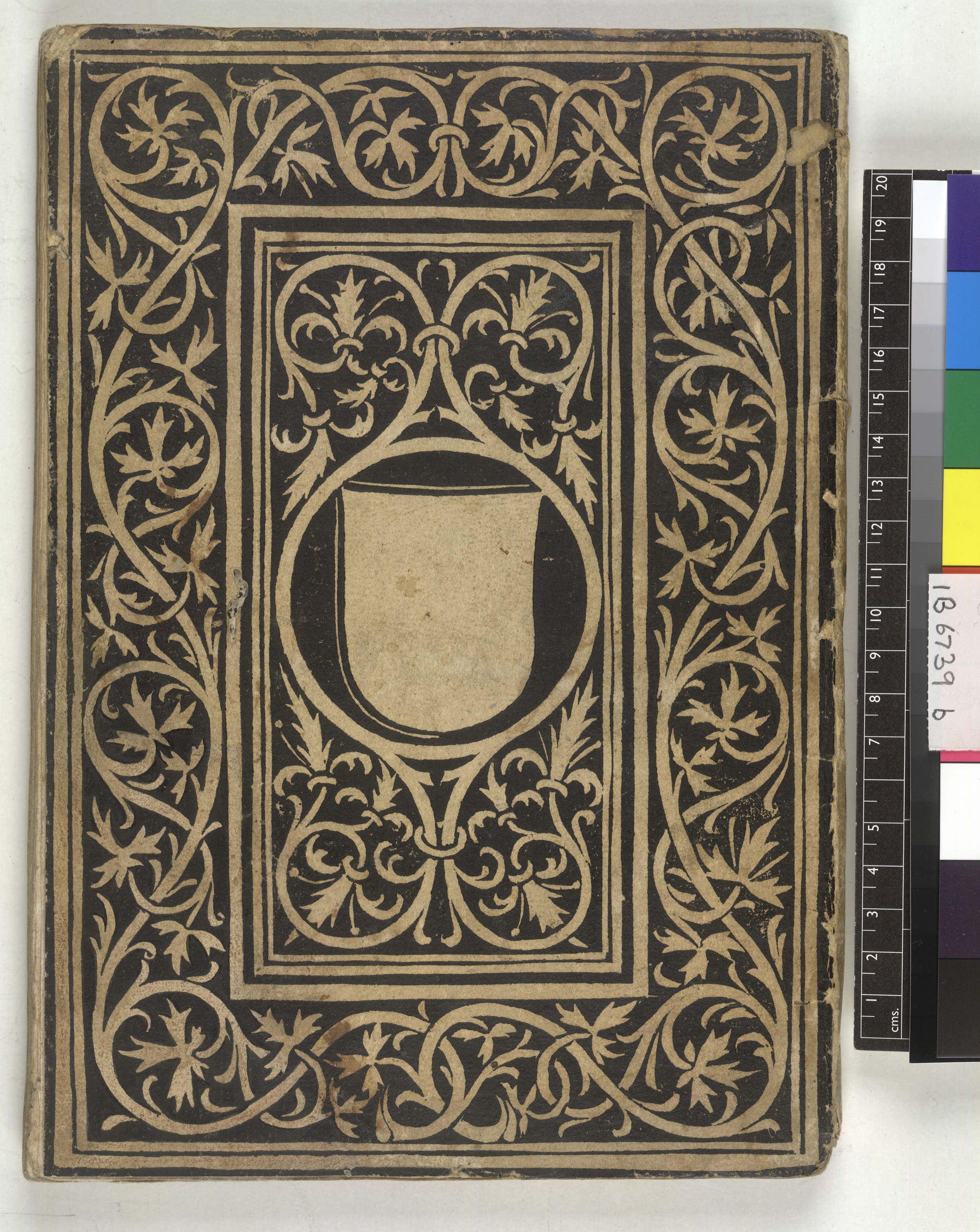 Style: Panel design; Caption: Lower cover; Colour: White / cream; Edge: Unspecified